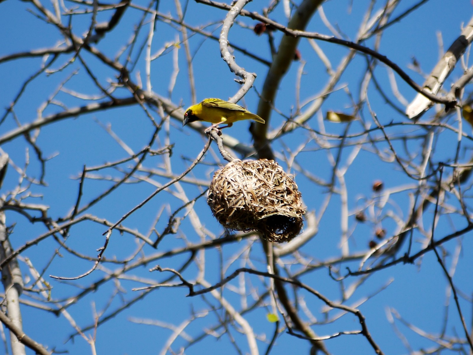 An Village Weaver and his nest (Ploceus cucullatus), Photo: Elke Brüser